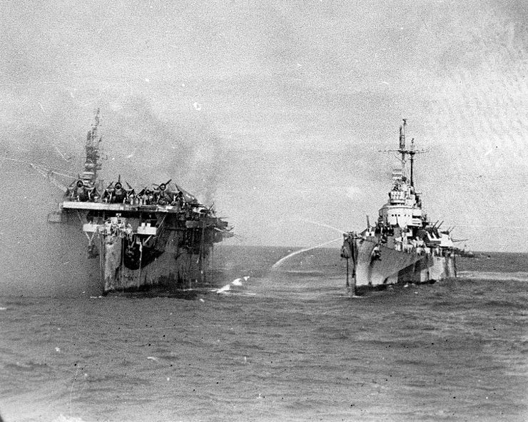 USS Birmingham (CL-62) comes alongside the burning USS Princeton (CVL-23) to assist with fire fighting, 24 October 1944. Original caption: "Photo # 80-G-281660-2 USS Birmingham comes alongside the burning USS Princeton" — removed caption